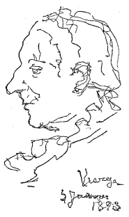 First drawing made by Vierge with his right hand since his illness, by Daniel Urrabieta Vierge.